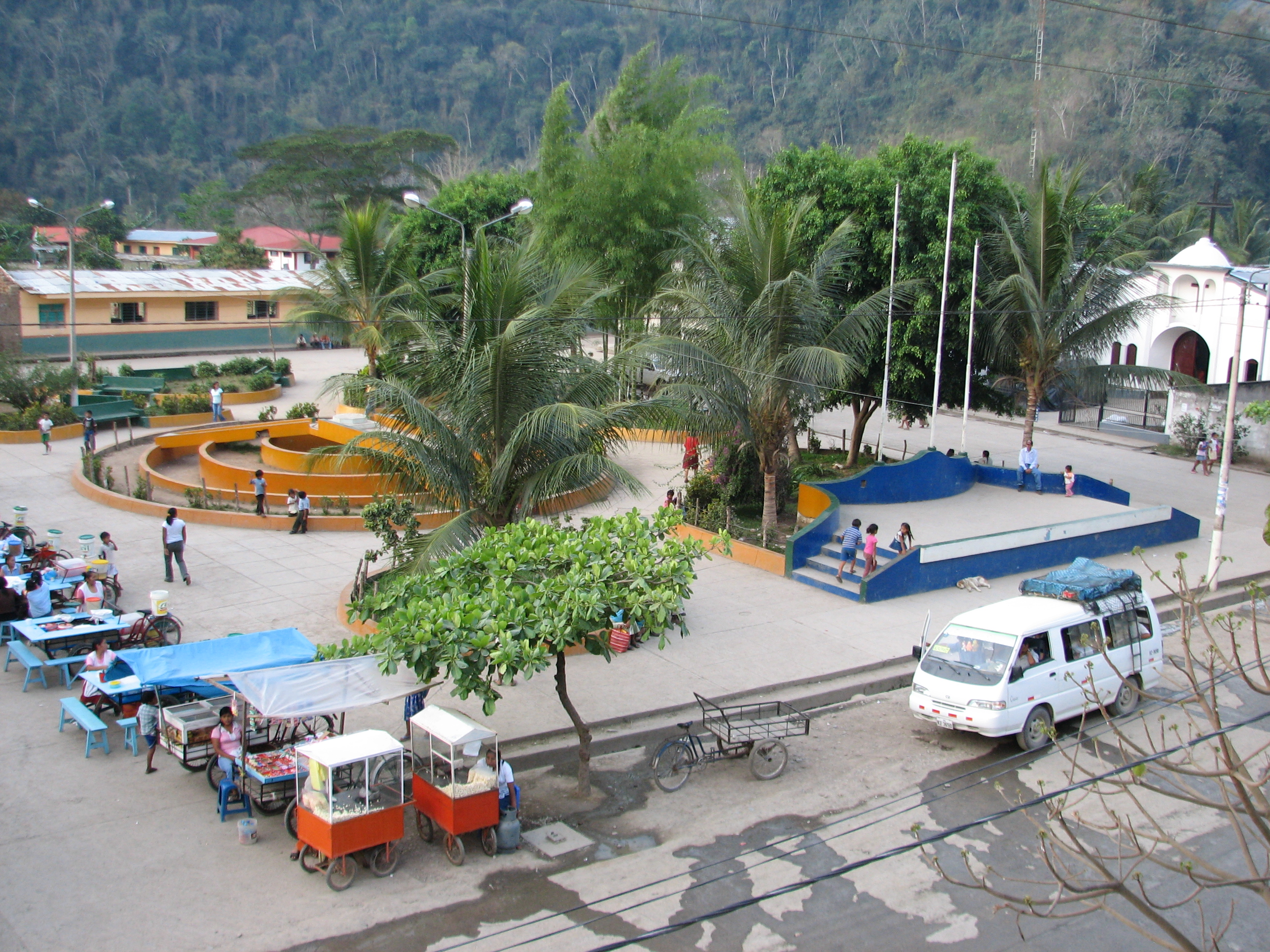 Central square in Kiteni, Cusco, Peru.